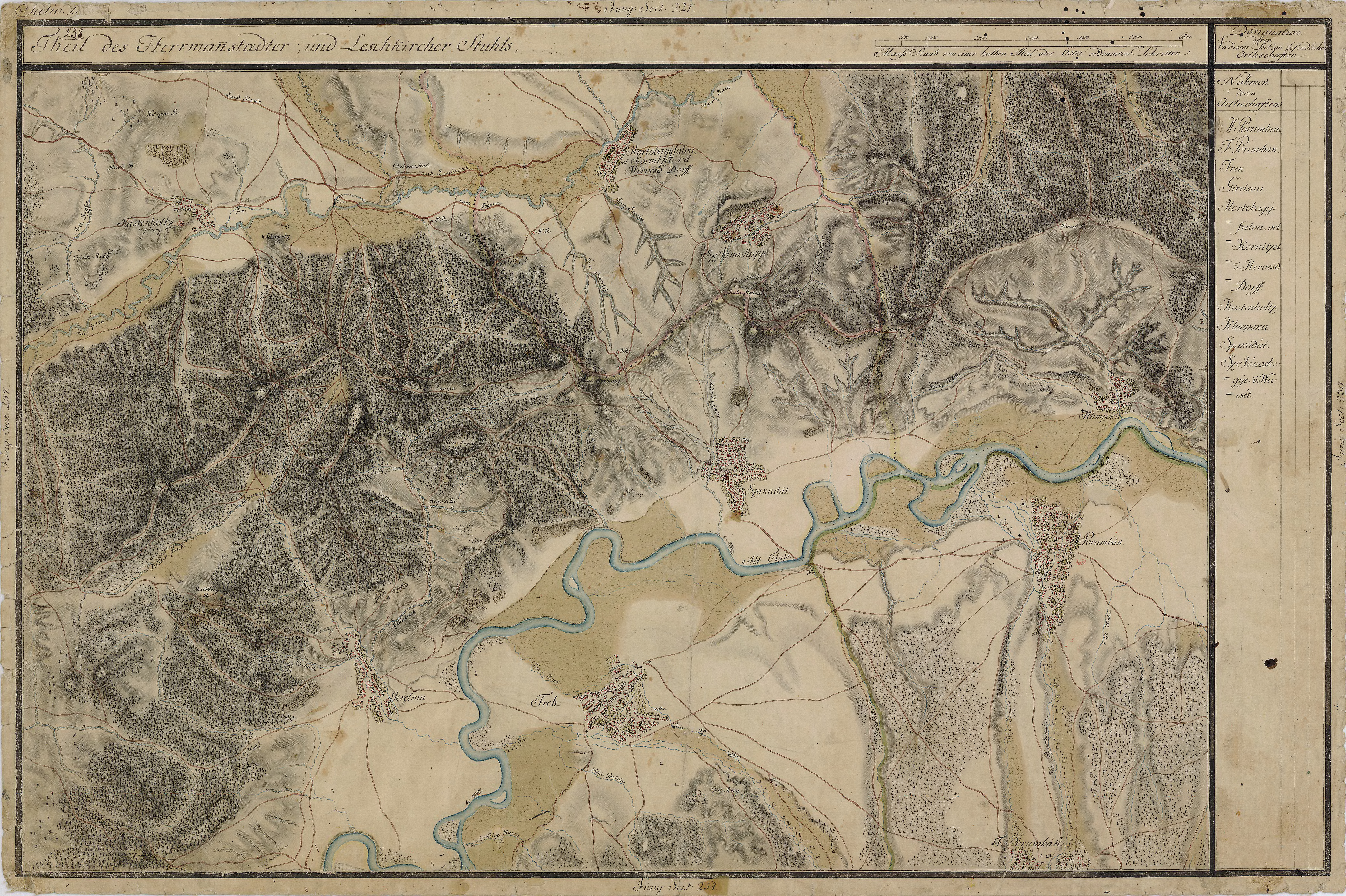 Grand Duchy of Transylvania, 1769-1773. Josephinische Landaufnahme pg.238